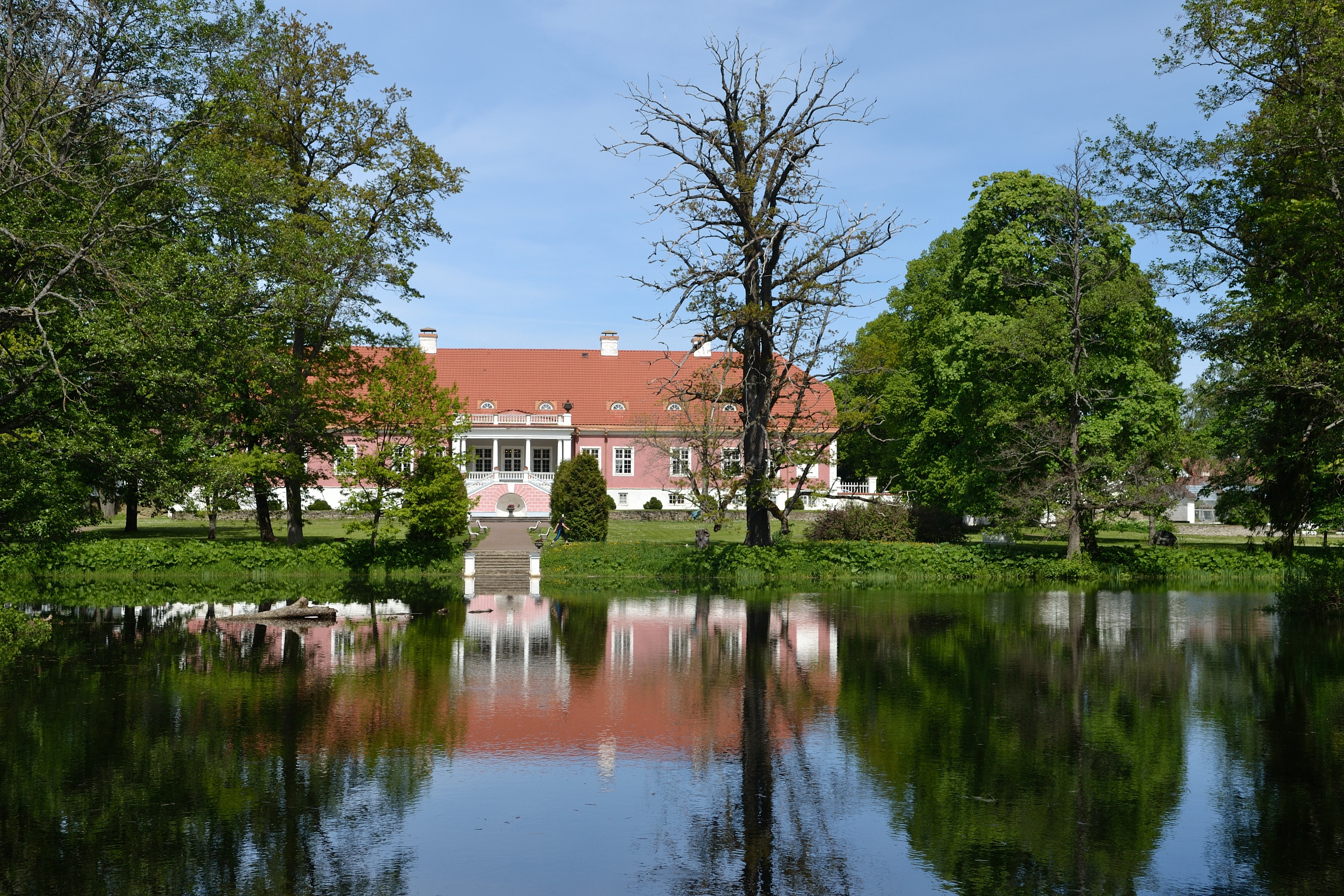 Sagadi manor park